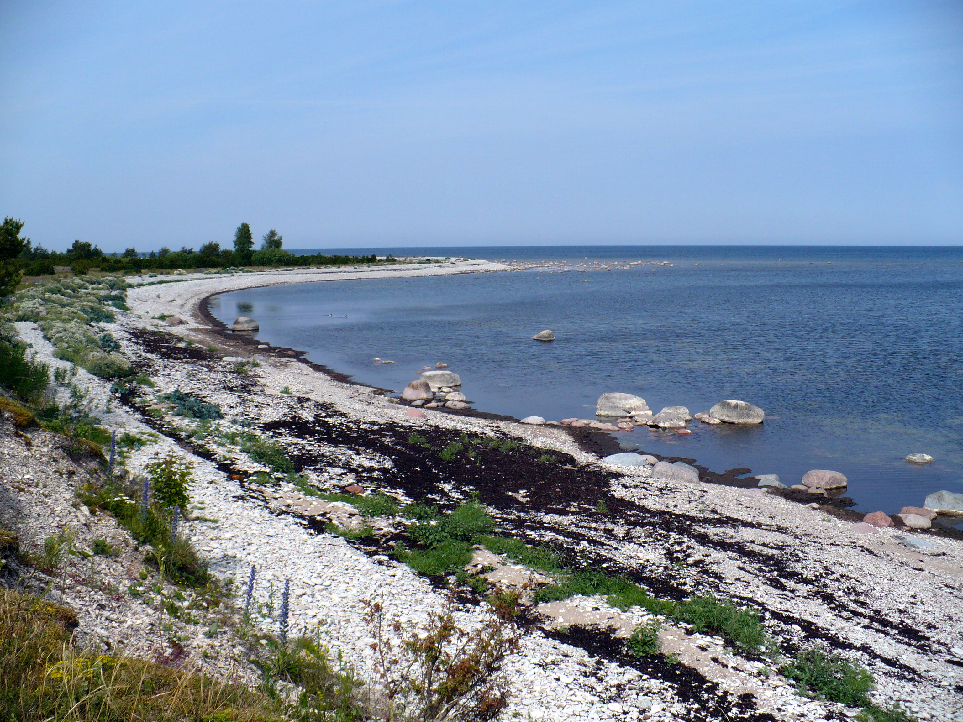 Wild beach